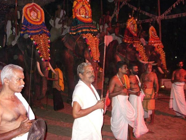 Nalpathenneeswaram Temple seeveli